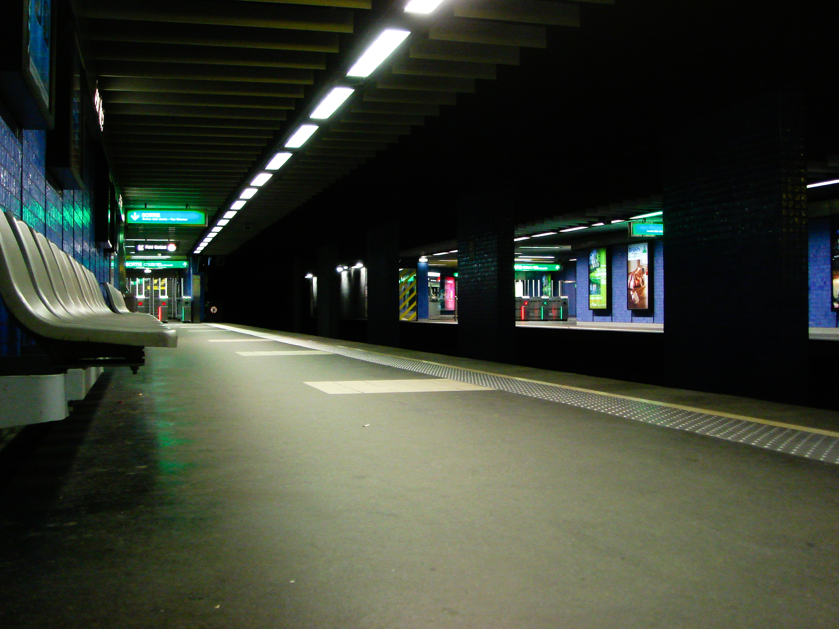 Jean Macé station on the B line of the Lyon Metro.